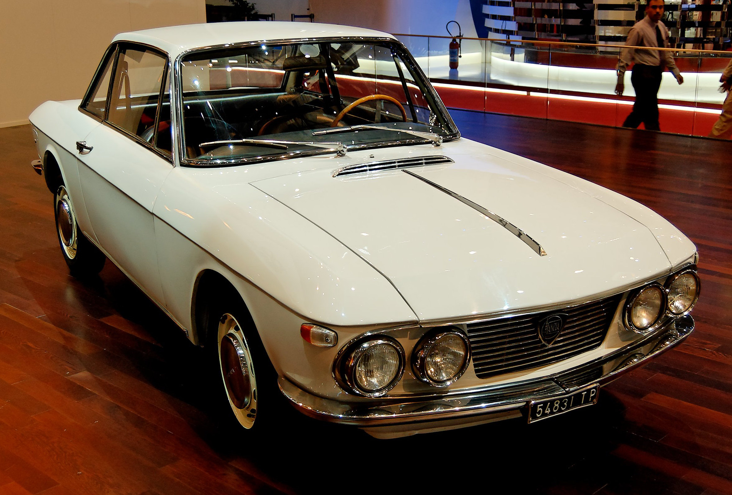 1967 Lancia Fulvia at the 2006 Salon International de l'Auto